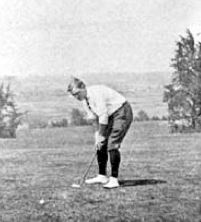 A circa 1905 photo of English professional golfer Percy Barrett.